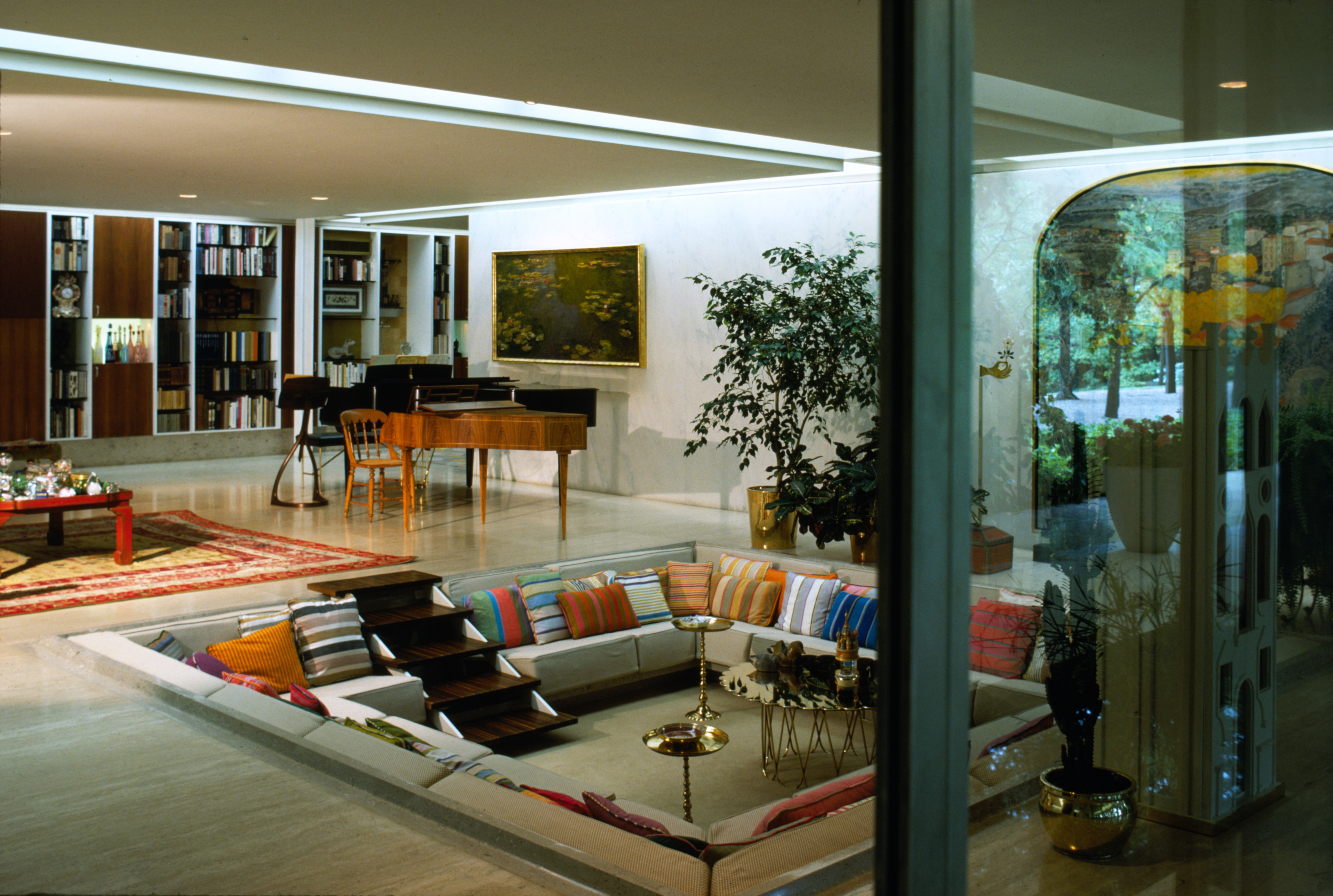 Miller house, Columbus, Indiana, 1953-57. Living area from terrace Note: No known restrictions on publication. Balthazar Korab Archive (Library of Congress)